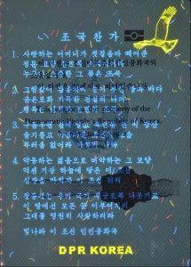 Note Page of DPRK E-Passport For Public Affairs under black light